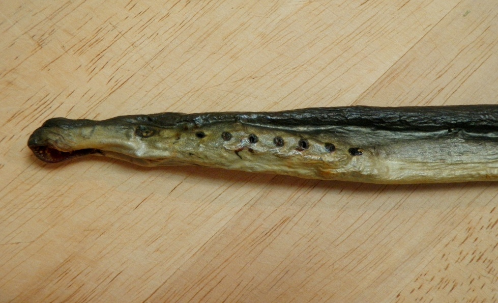 Stockfish of arctic lamprey (Lethenteron camtschaticum syn. Lethenteron japonicum), bought in Asakusa, Tokyo, Japan.